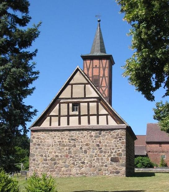 Kranepuhl Stone church, built at the beginning of the 13th century. Kranepuhl village is a hamlet in Planetal municipality, in Potsdam Mittelmark district, Brandenburg state, Germany.